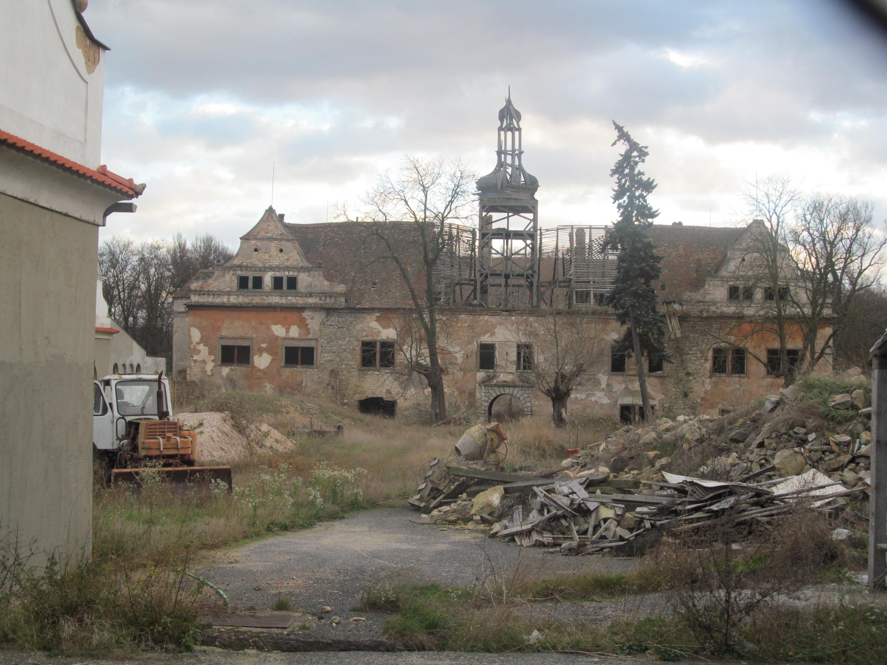 Courtyard of the Vršovice Castle